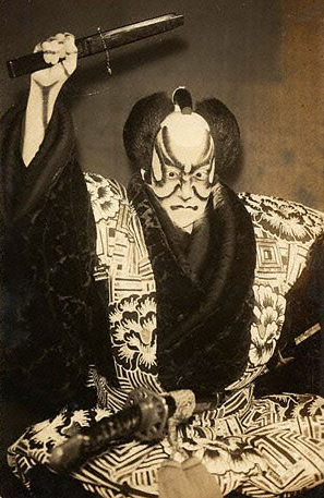 Sanshō Ichikawa V (Danjūrō X) (1882–1956) as Kōga Saburō in Uranari